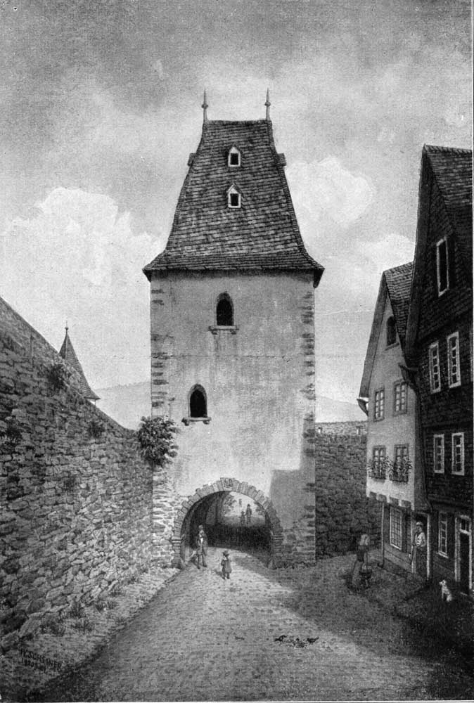 Historic view of the Marburger Tor (Marburg Gate) of Siegen (Westphalia/Germany), ca. 1850. Scan of a painting by Wilhelm Scheiner (1852–1922)